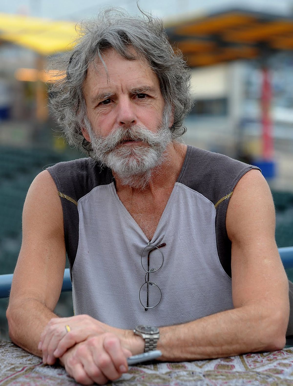 Bob Weir at HeadCount Meet-and-Greet benefit at MCU Park Furthur concert in Brooklyn, NY on June 26, 2010